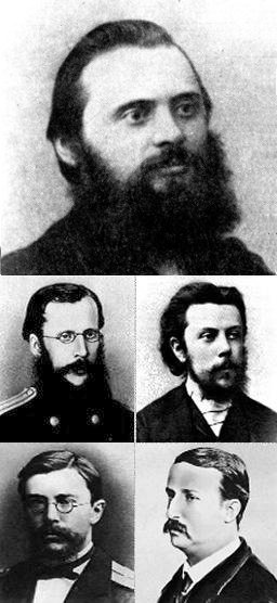 I made this image from scans